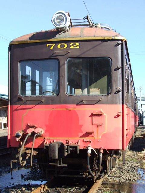 Choshi Electric Railway 700 series EMU car DeHa 702 at Nakanocho Depot